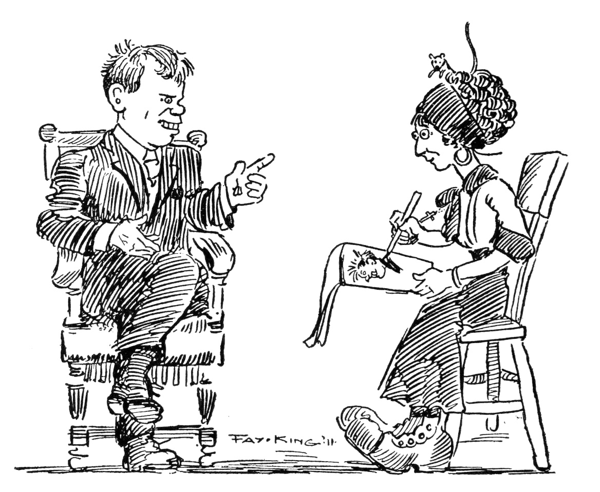 Caricatures of Battling Nelson and Fay King